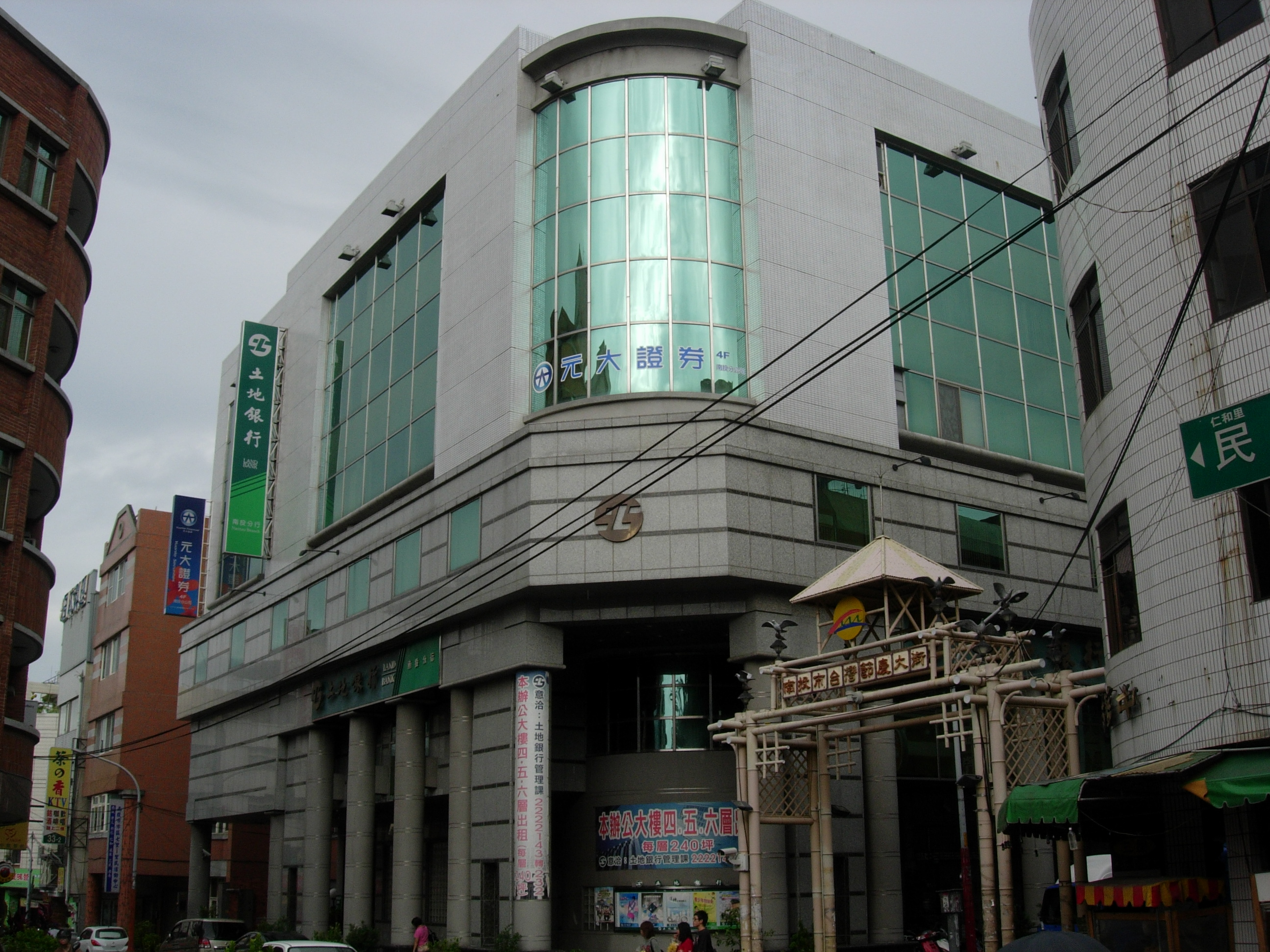 LandBankNantouBranch 中文（台灣）: 臺灣土地銀行南投分行